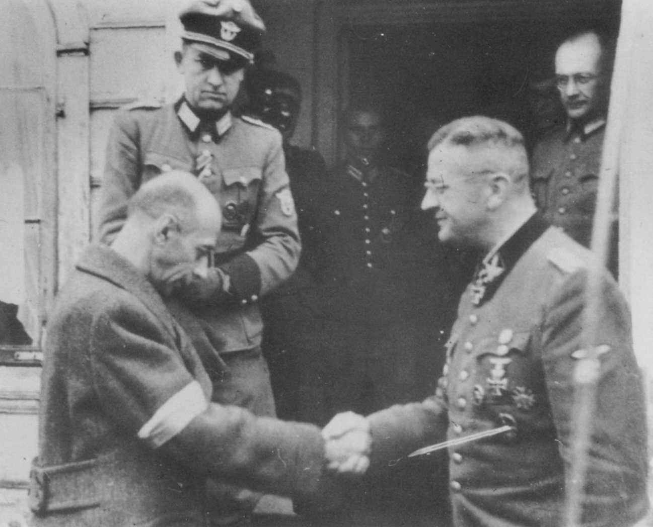 Capitulation of Warsaw Uprising. CiC of Polish Armia Krajowa Gen. Tadeusz Bór-Komorowski (left) after a meeting with SS-Obergrupenführer Erich von dem Bach-Zelewski (right). Ożarów Mazowiecki (Bach's HQ) - 4th October 1944.